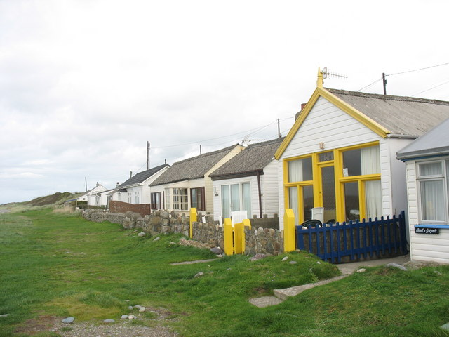 Beach Chalets at Aberdesach These clapboard buildings are used as holiday homes.